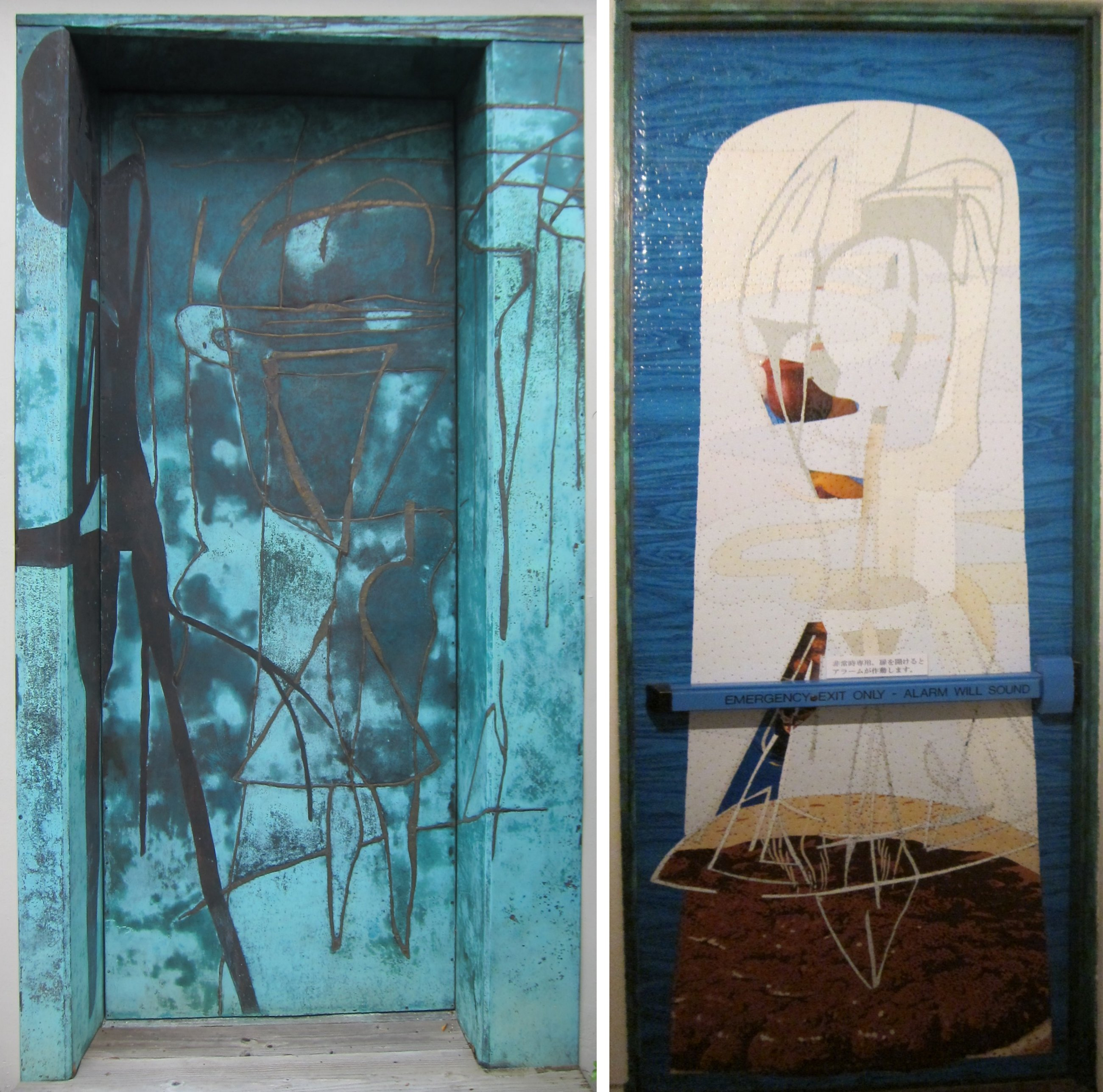 Baba's Door, side door of Spalding House (Honolulu) by Tony Berlant, collaged metal, 1988. Both sides of door are shown